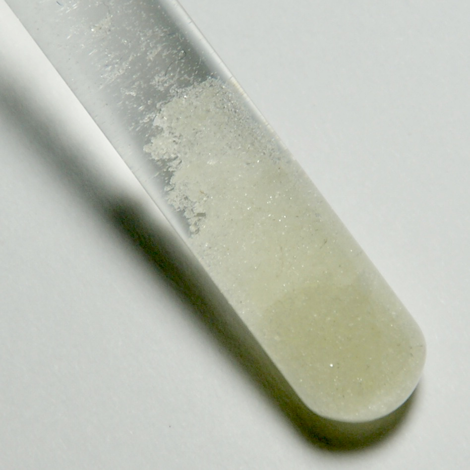 Pale yellow-green dysprosium sulfate, Dy2(SO4)3. Vial diameter 1 cm.